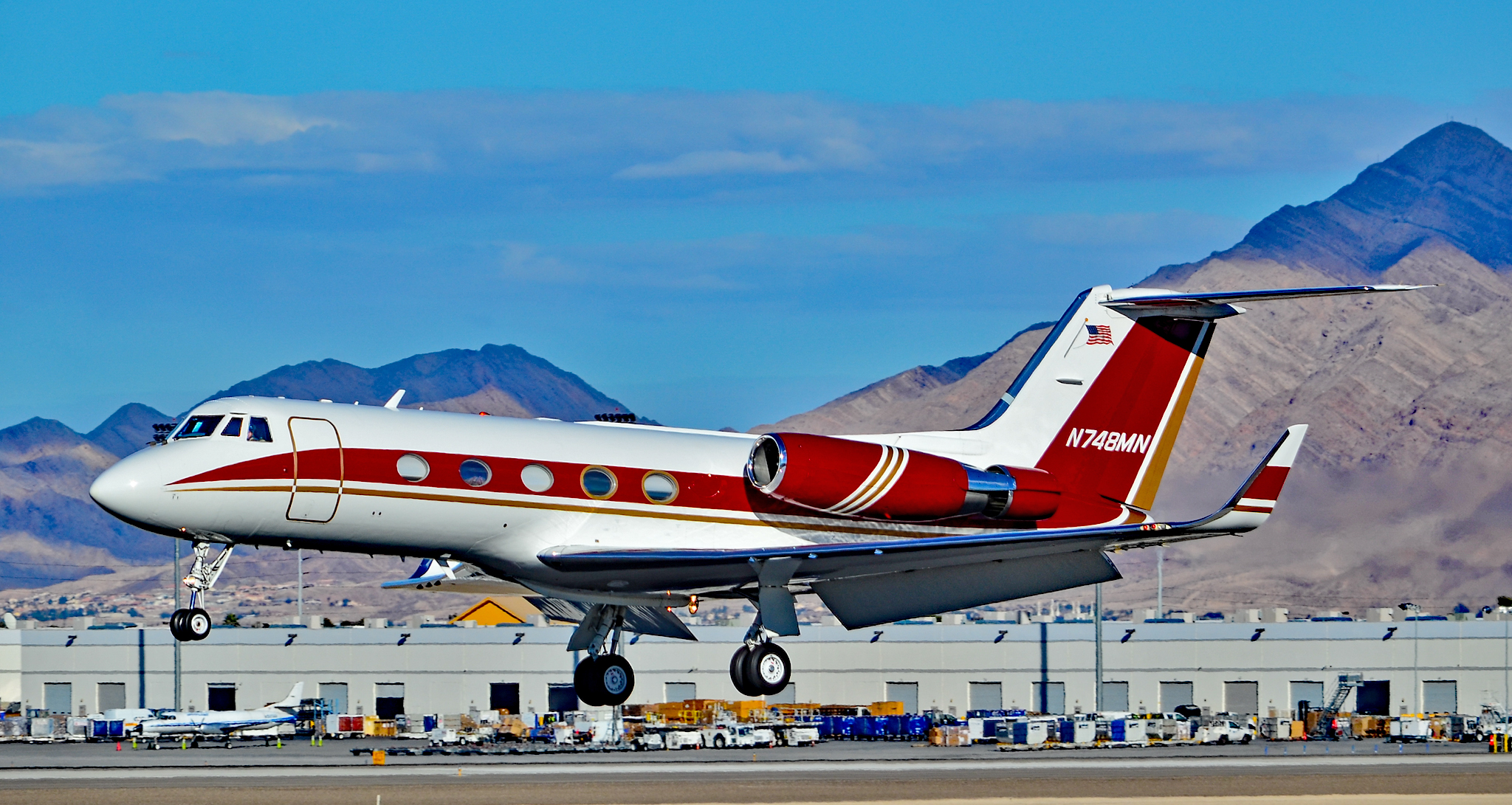 Las Vegas - McCarran International Airport (LAS / KLAS) USA - Nevada December 2, 2016 Photo: Tomás Del Coro